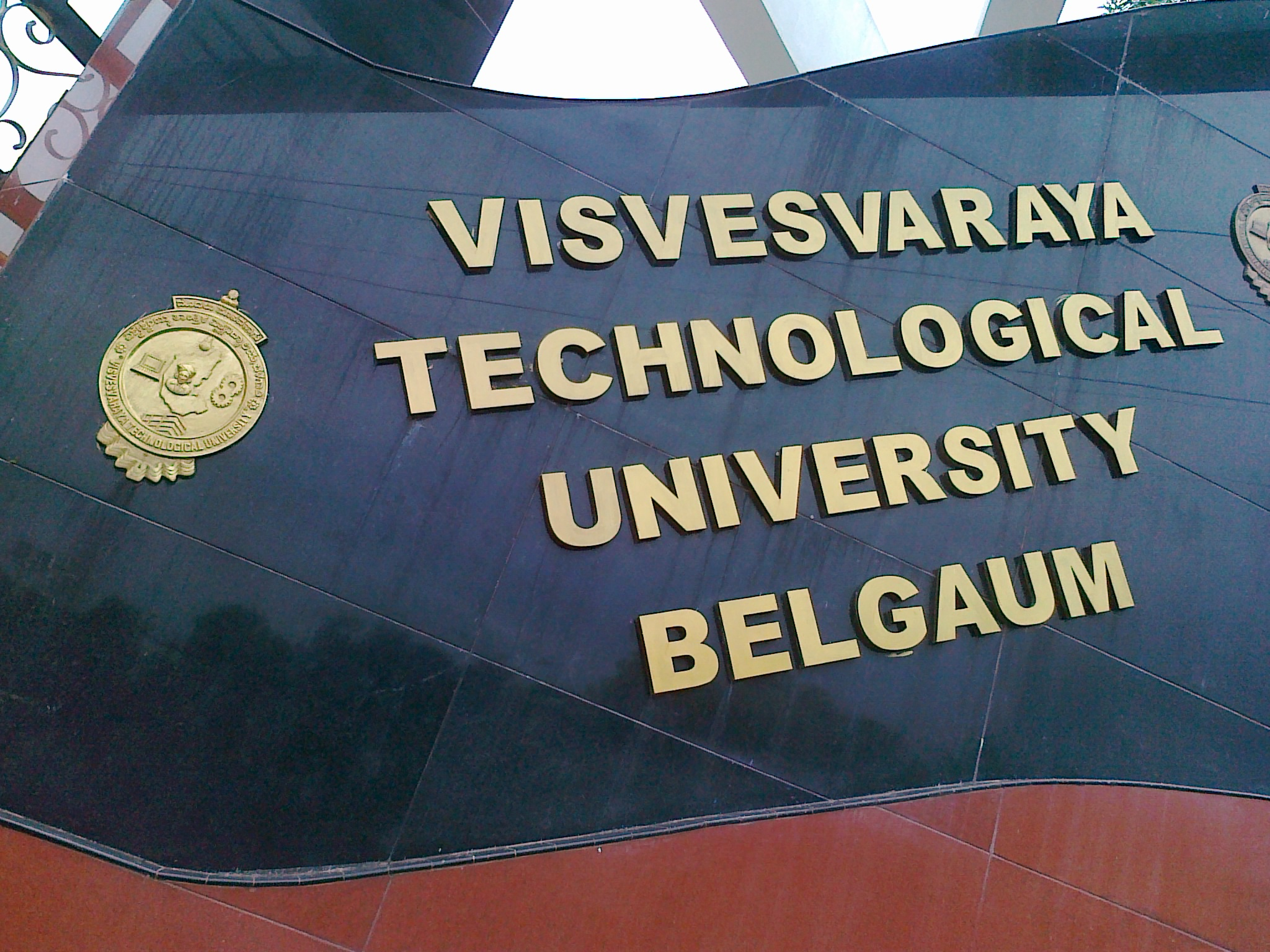 VTU Entrance